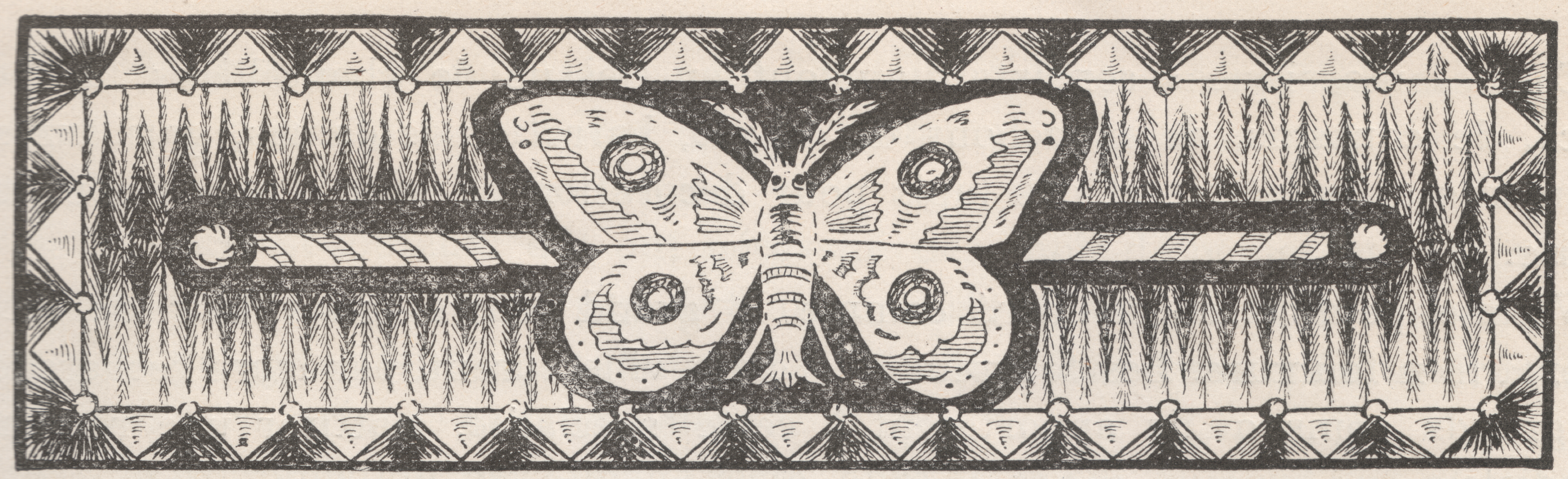 D. Pellifex: Annals of Fur No 1, The Furs Mosaik